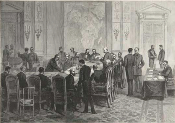 Berlin Conference to divide Africa between the European powers.